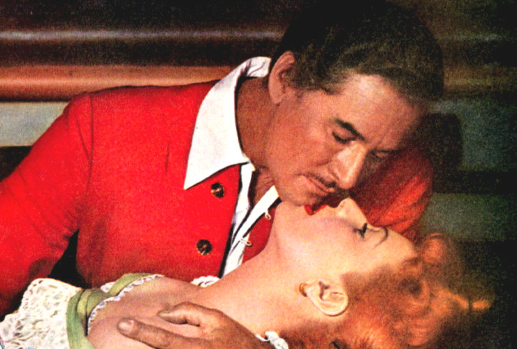 Photo from a 1952 ad in Saturday Evening Post for the film Against All Flags. Pictured are Maureen O’Hara and Errol Flynn.